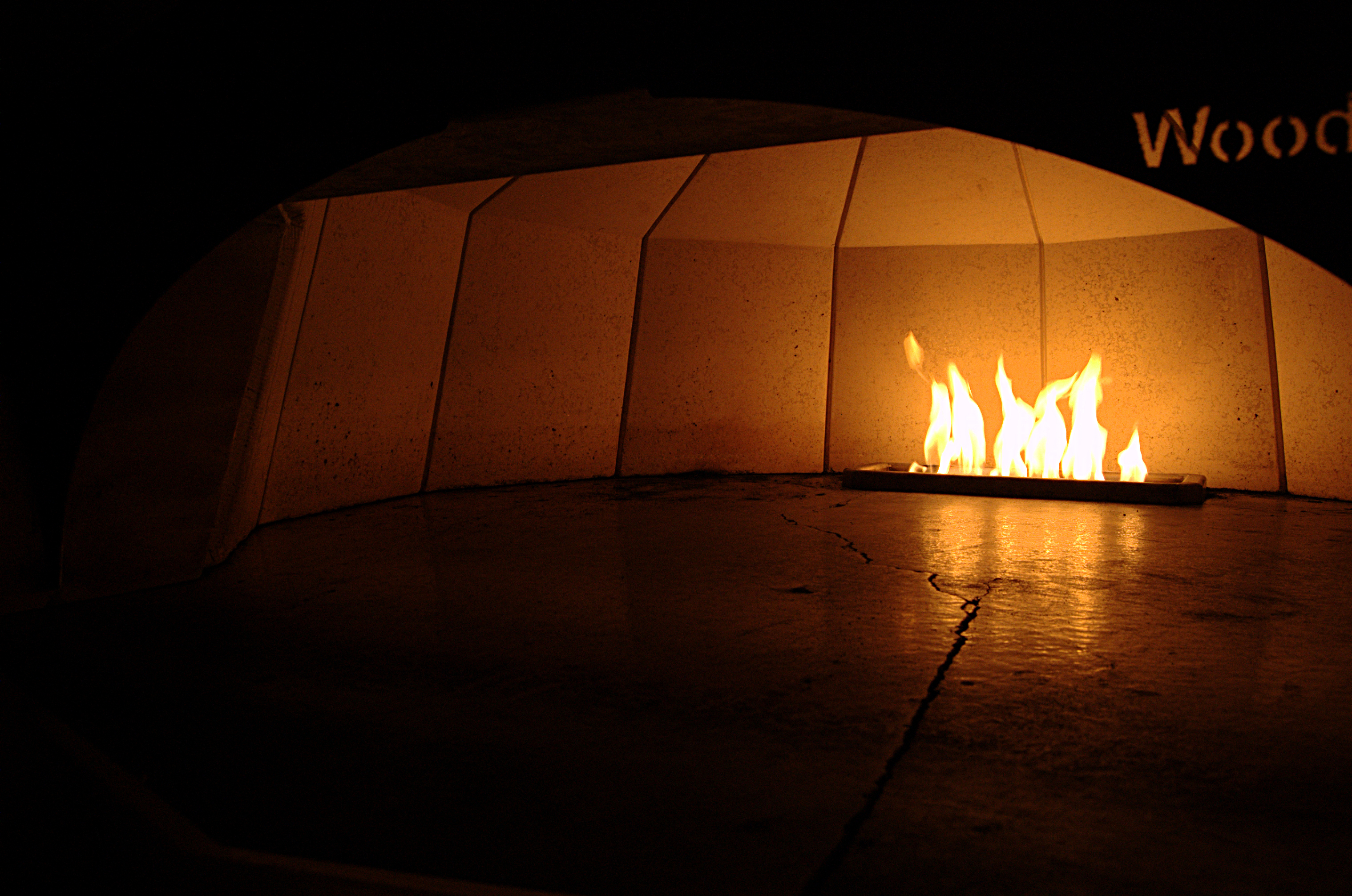 Gas-fired brick pizza oven, made by Wood Stone, used for cooking pizzas and other dishes in a traditional oven style within a modern commercial restaurant. This particular oven is operated at 700 degrees Fahrenheit. Location access courtesy of The Boathouse at Sunday Park.